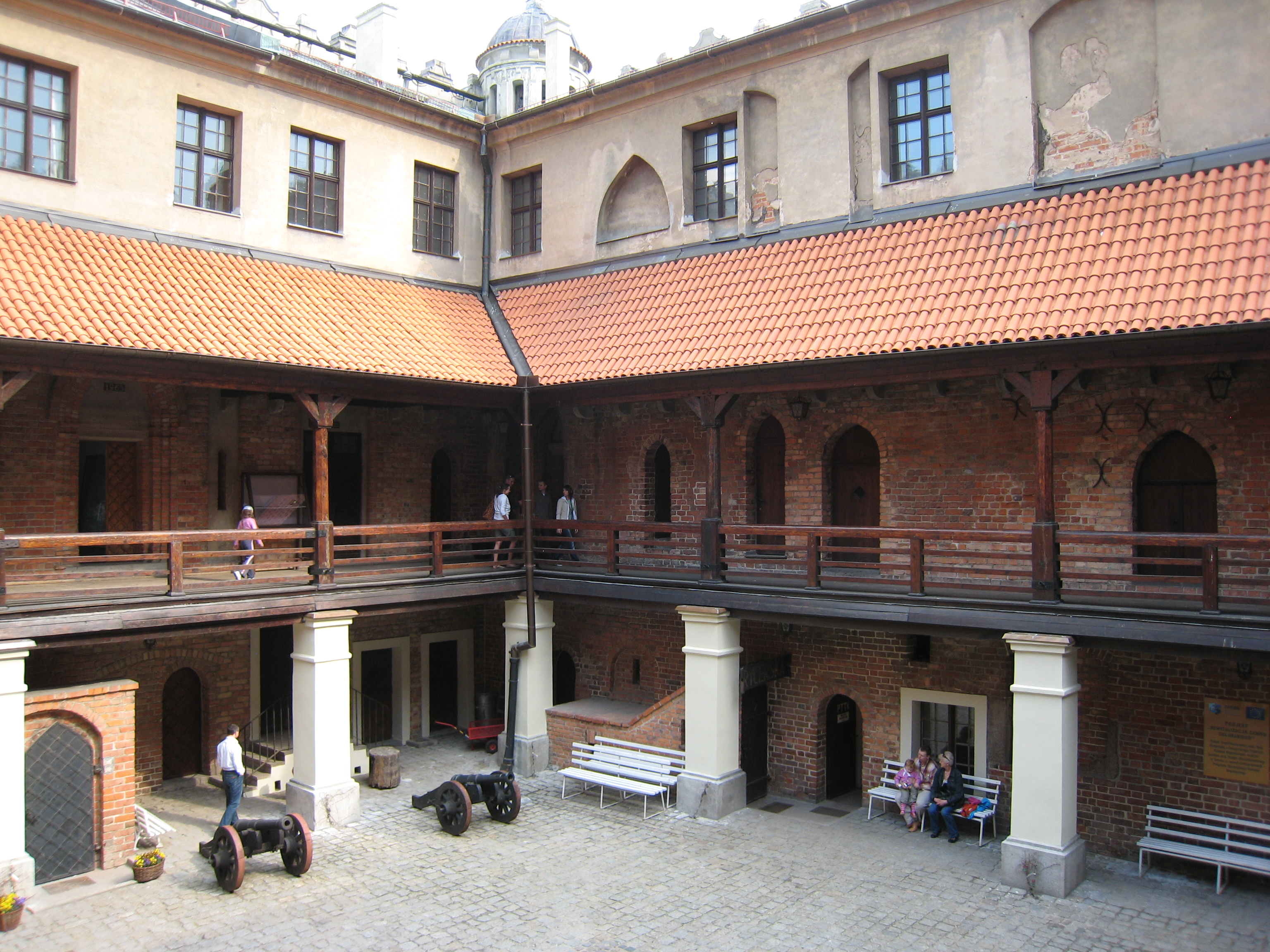 Castle courtyard in Golub-Dobrzyń